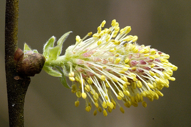 Salix aurita from Commanster, Belgian High Ardennes .